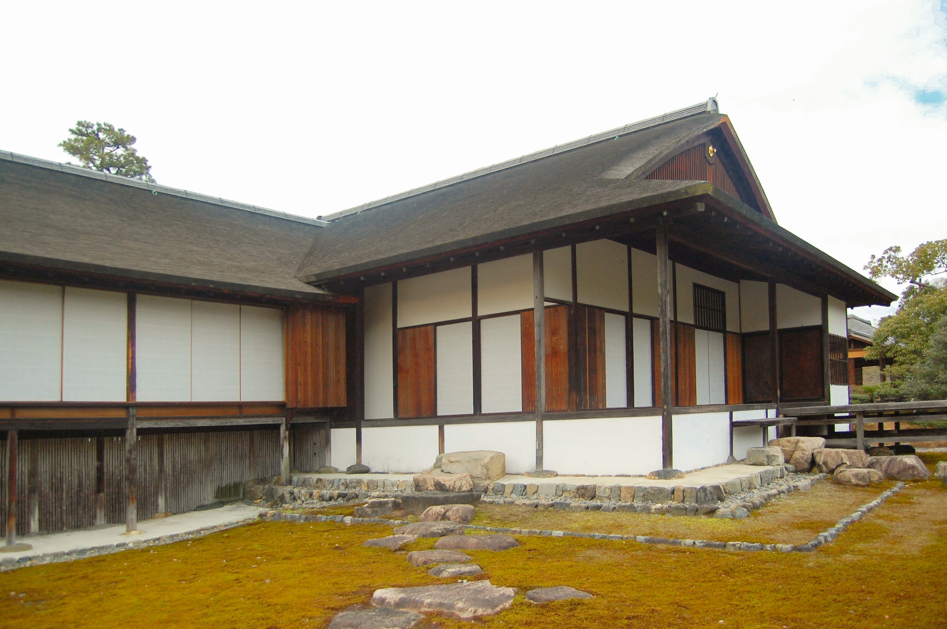 Ko-shoin, the main house